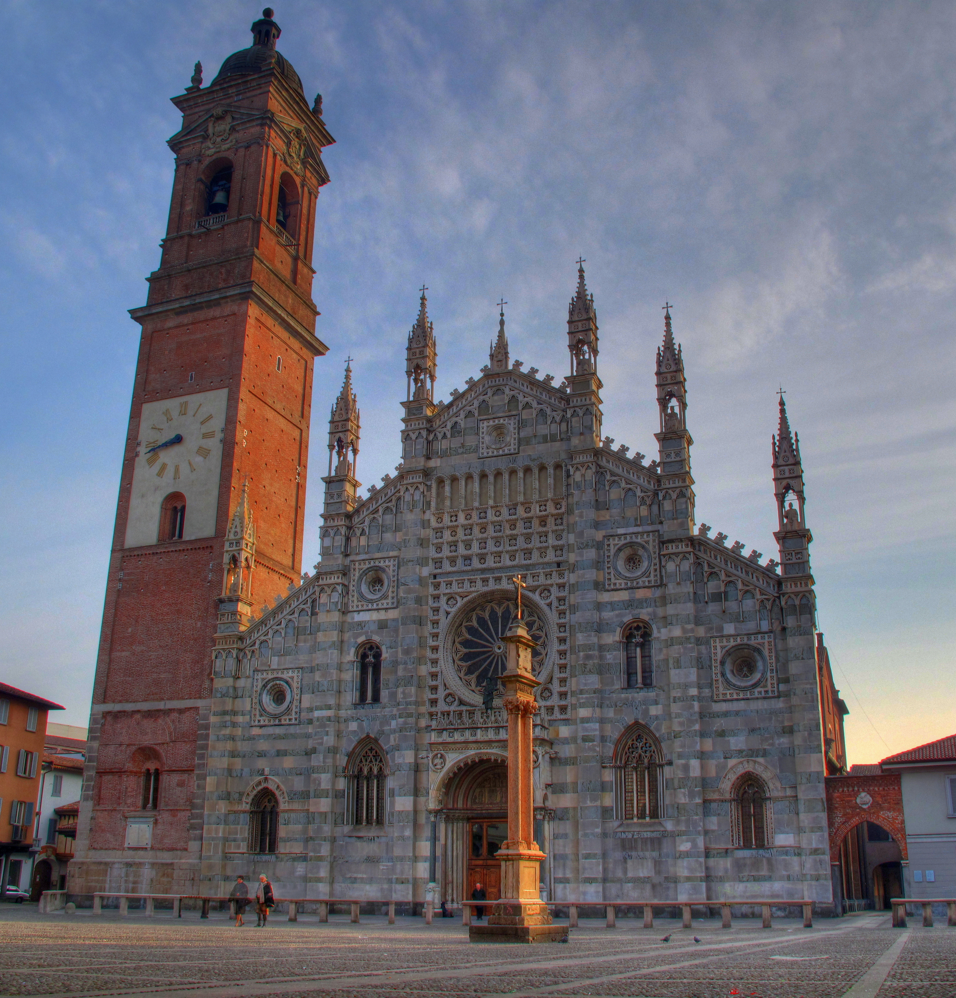 The dome of Monza (italy)